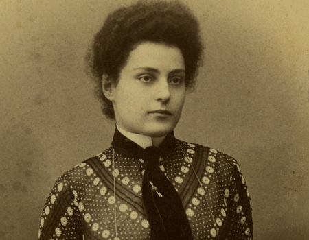 Portrait of the Georgian journalist and women's rights activist Kato Mikekadze (1878-1942)